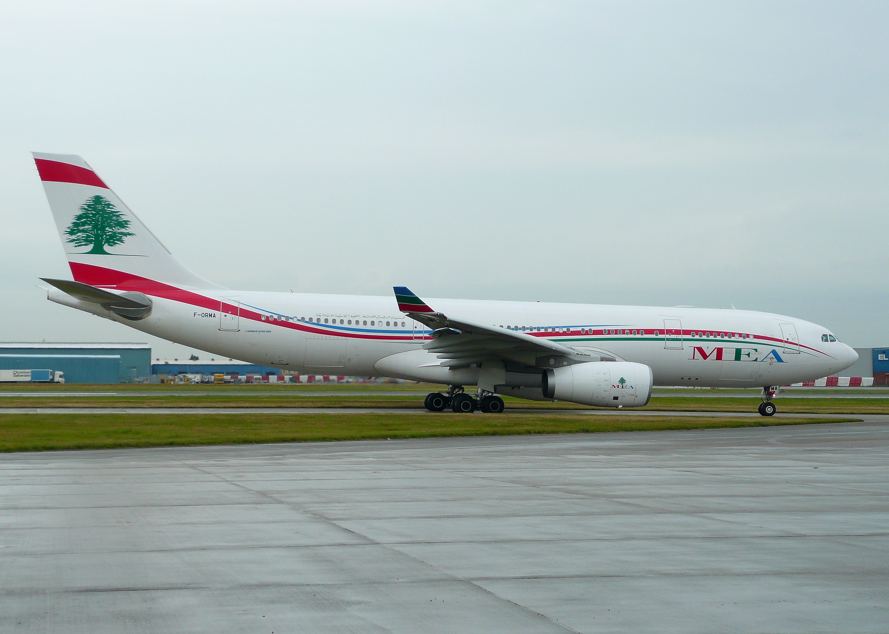 F-ORMA A332 MEA taxying for take off after it's first visit